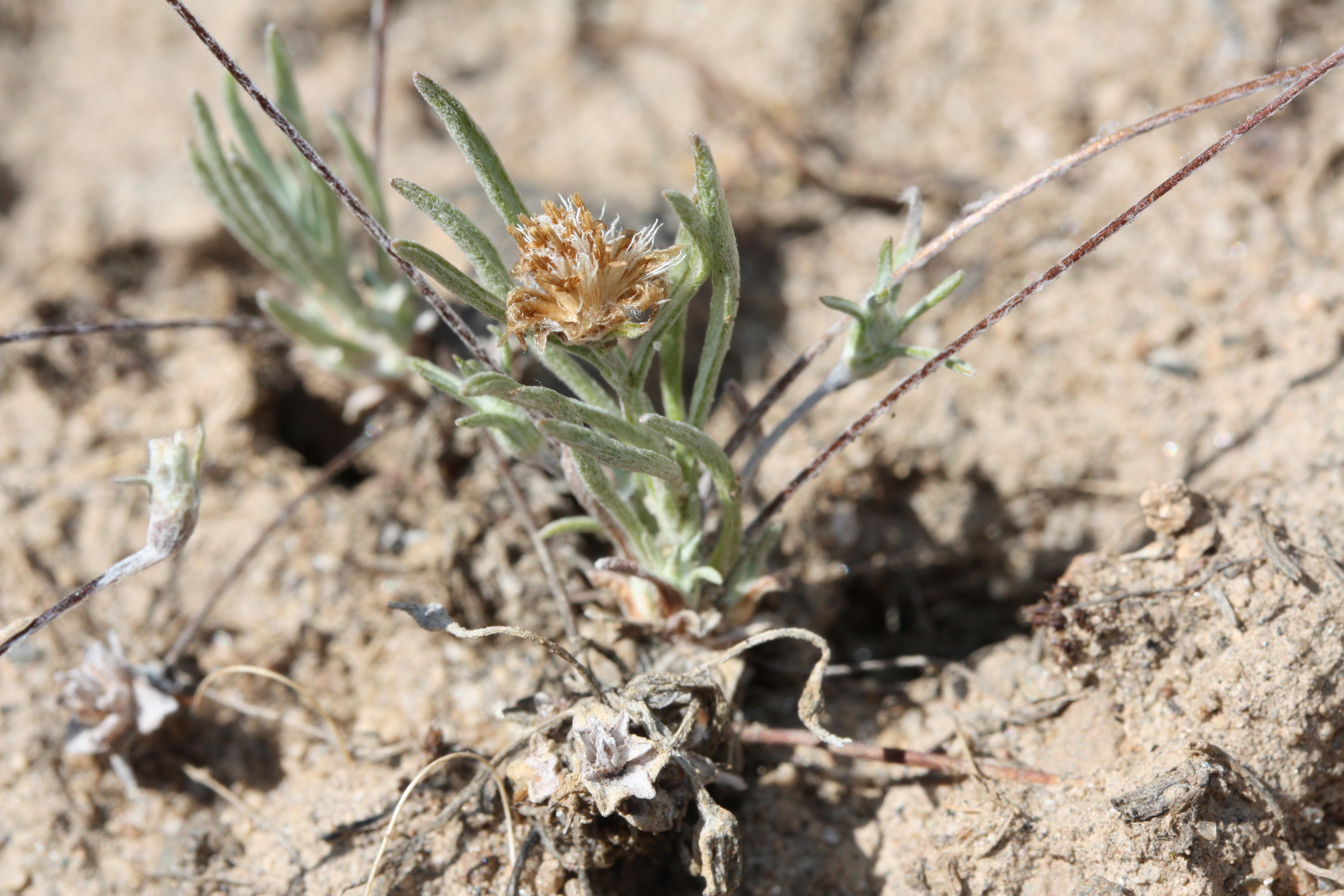 Whip Pussytoes, Stoloniferous Everlasting, Flagellate Pussytoes